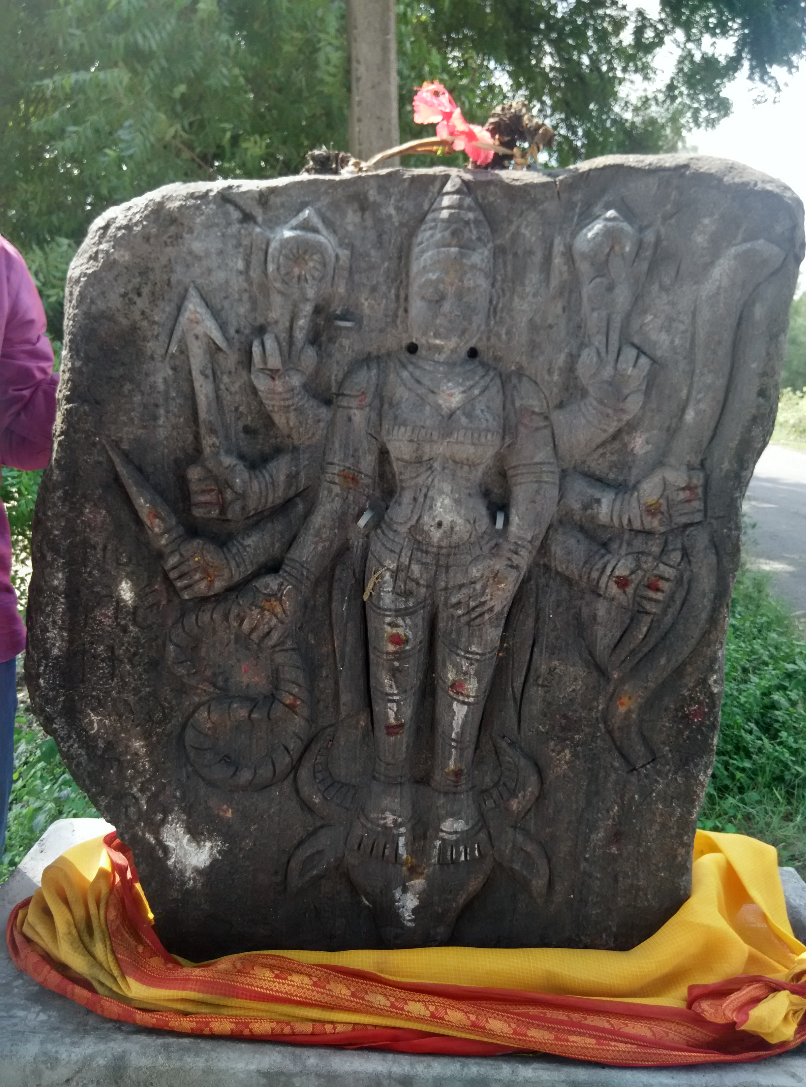 THAMIL LAND GOD OF PAALAI . LATERAL PERIOD SHE BECOME WAR OF GOD .